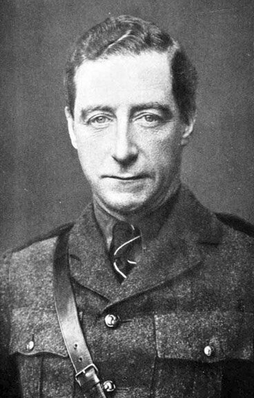 Cathal Brugha (image before 1922) from postcard issued when he was killed.